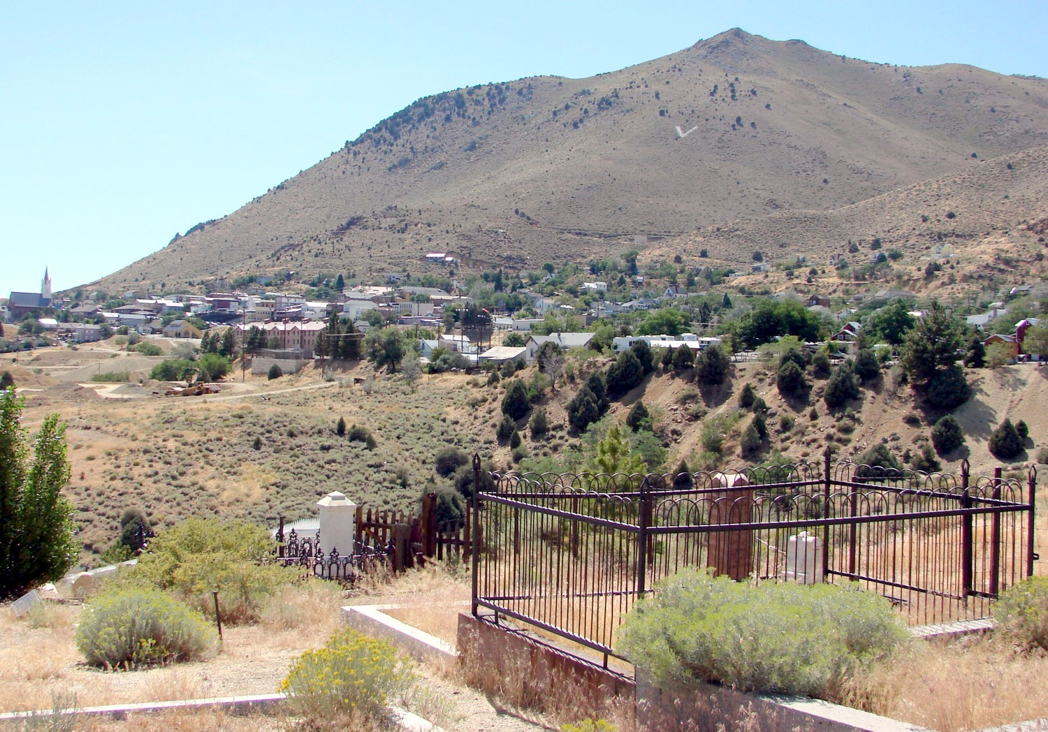 (1 in a 6-picture set) From the higher gravesites one can look back on Virginia City. The people buried here were once vibrant citizens of this boom town. Perhaps in the night their spirits come out and talk about their experiences and recall the happiness (or the horrors) of the place.